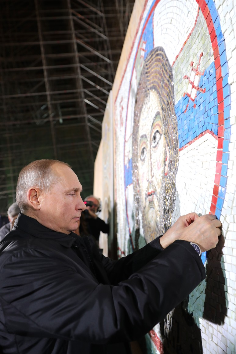 Во время посещения храма Святого Саввы